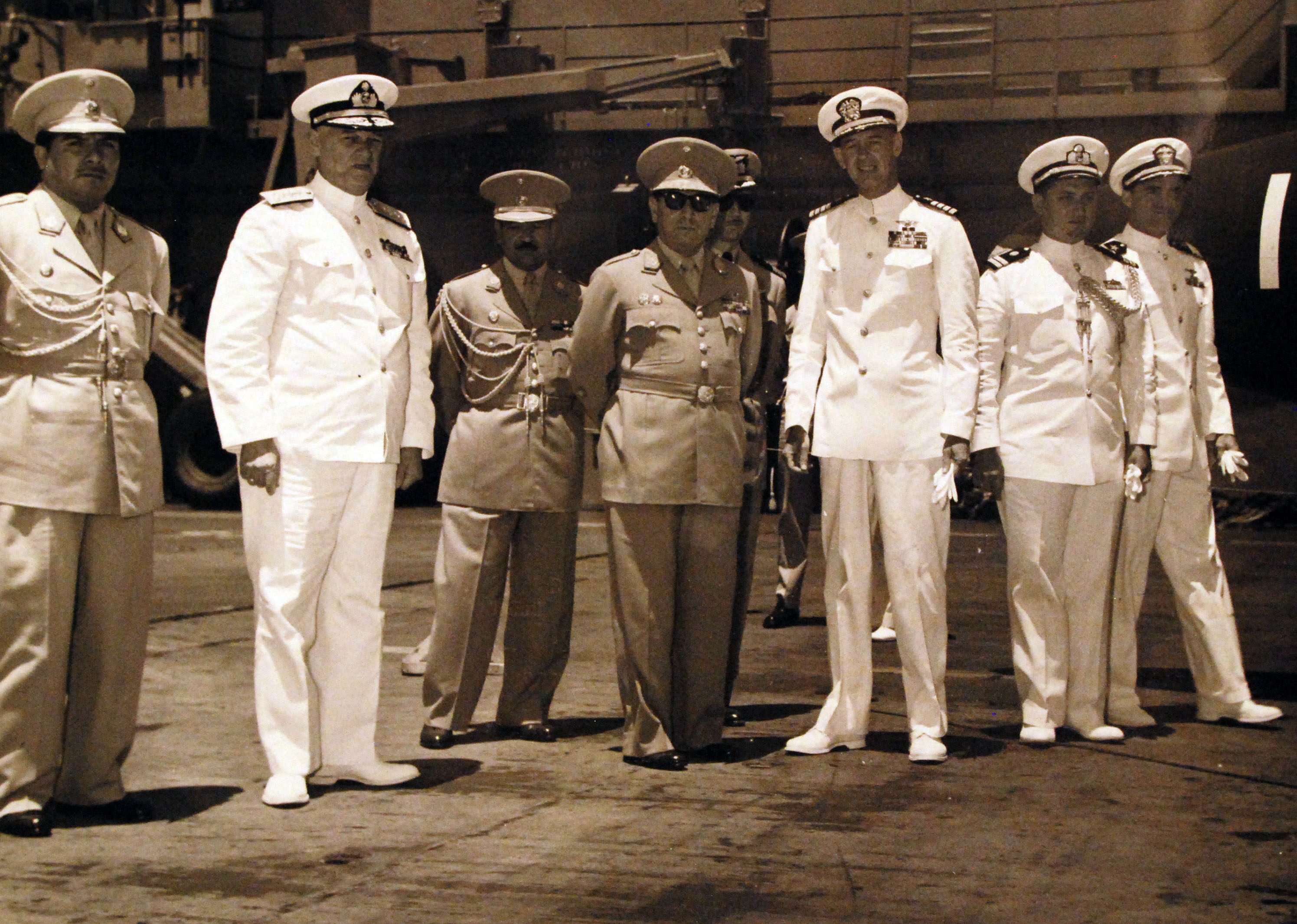 330-PS-6530: US Navy Carrier USS Franklin B. Roosevelt Rounds Cape Horn. With the carrier too big for the Panama Canal, she is on a cruise around Cape Horn from Norfolk to Bremerton, Washington, there she will enter the Navy Yard for modernization. General Manuel A. Odria, President of Peru, visited the aircraft carrier during the ship’s visit at Lima, February 10-14, 1954. In this picture taken on the flight deck are (left to right), front row: Admiral M. Saldias, Peruvian Naval Minister; General Ordia; Captain J.S. Thatch, Commanding Officer of the carrier; Lieutenant A. M. Martinas, one of the Peruvian Navy, and Commander D.M. Minner, Executive Officer of the U.S. Navy carrier. (4/7/2015).